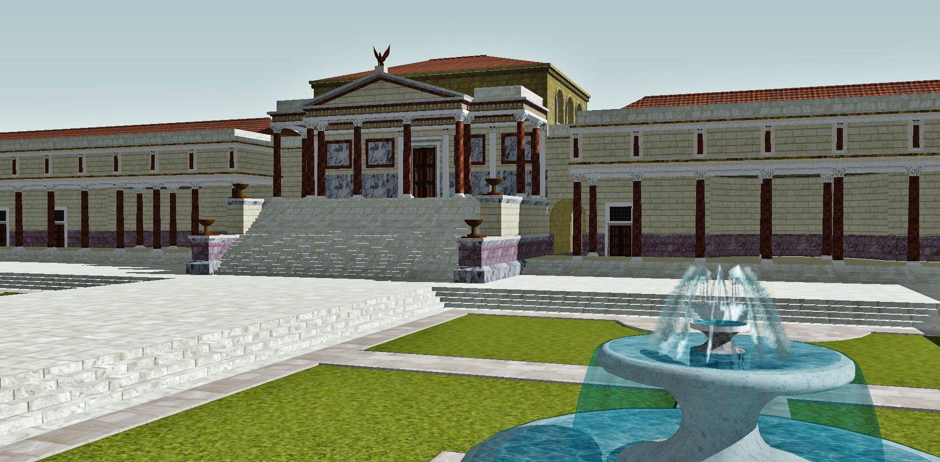 This is a derivative work of a 3D, Computer generated image of the Theatre of Pompey by the model maker, Lasha Tskhondia - L.VII.C.[1]. Variations to the original model include shadows, adjusted for good lighting as well as the file being adjusted for color and contrast.